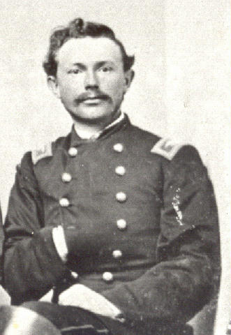 Col. Charles G. Harker. Scanned from an original carte de visite in the uploader's collection. Author unknown, no backmark.